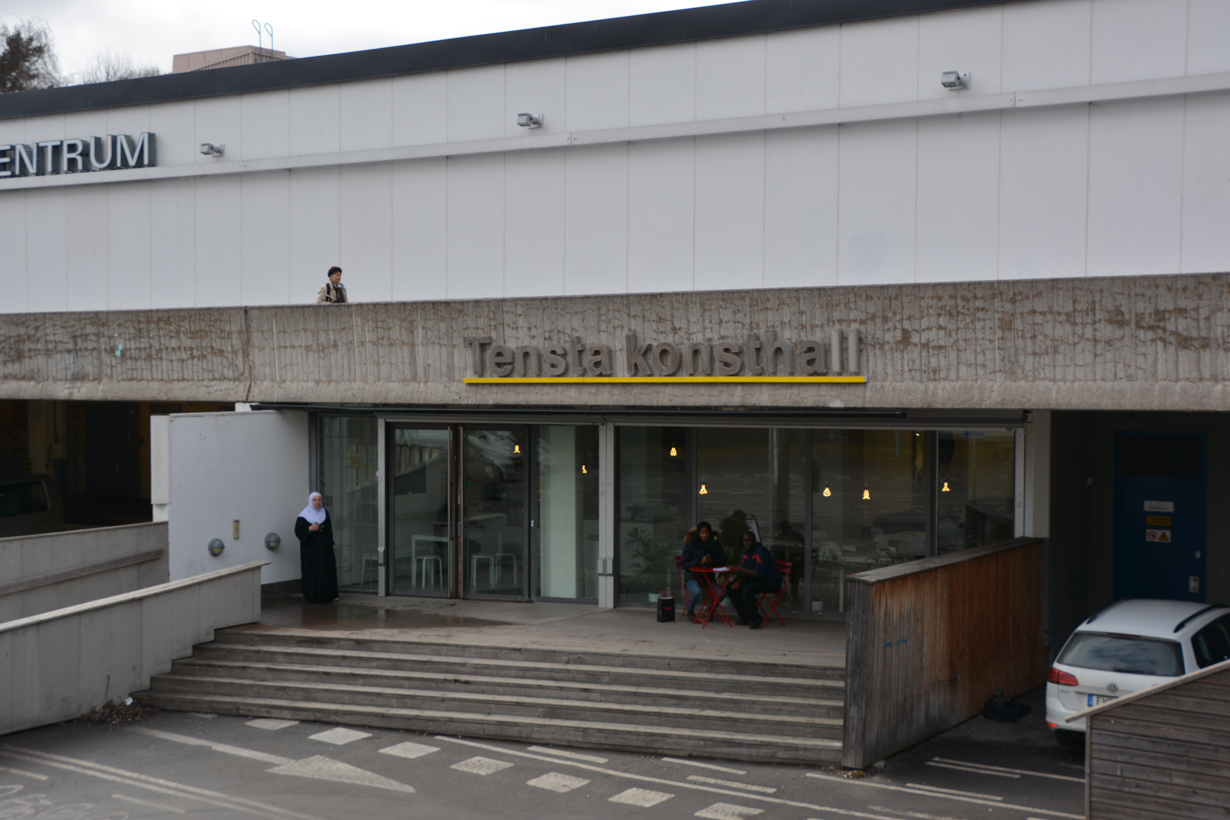 Tensta konsthall, entré